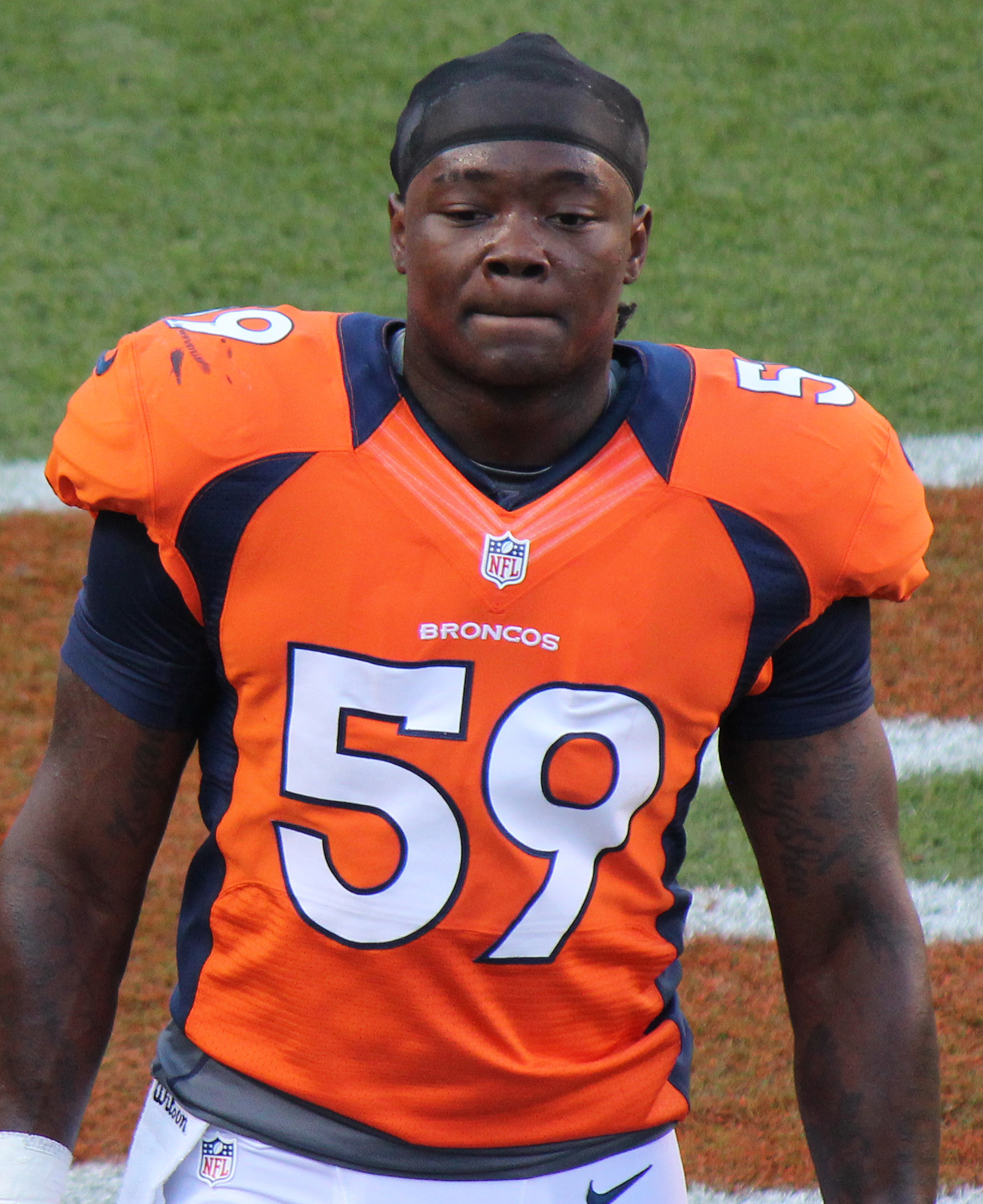 Danny Trevathan, a player on the National Football League.